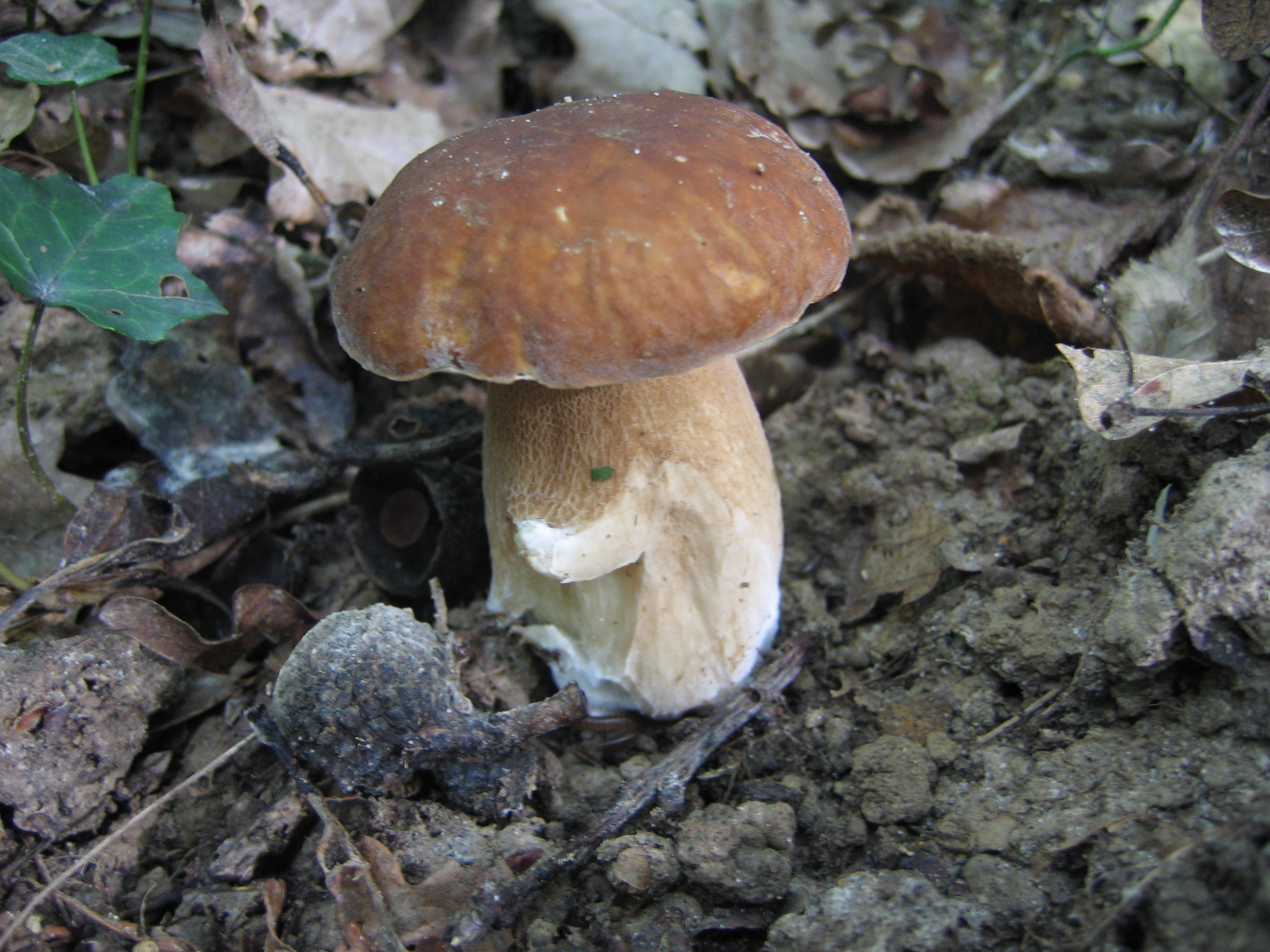 Boletus edulis